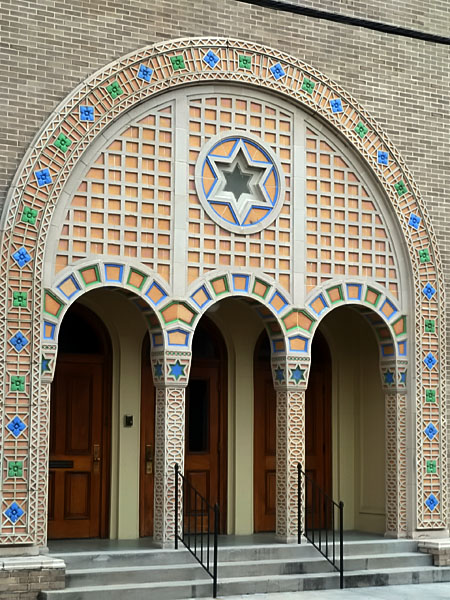 New Orleans: Detail, Touro Synagogue, General Pershing Street side.